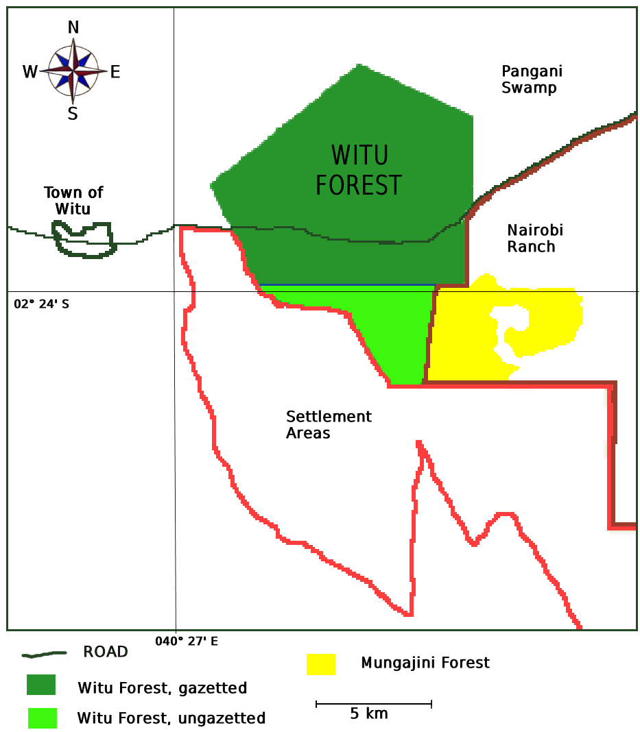 Map showing the Witu Forest, Kenya, with gazetted and ungazetted lands, the town of Witu, and the relationship to the Nairobi ranch, the Mungajini Forest, and the Pangani Swamp. Based upon data in Wacher, T. & Andanje, S. 2004. Kipini Wildlife and Botanical Conservancy: Feasibility Study – the potential role of Kipini Wildlife and Botanical Conservancy in the conservation and development of wildlife and natural resources; Lamu, Ijare and Tana districts, Kenya. Embassy of Finland, Nairobi, Kipini Wildlife and Botanical Conservancy Trust. and Neilsen, , Martin R. and Sick, Claudia (2008). Conservation and Use of Witu Forest, Kenya: Biodiversity and Disturbance Survey and Management Recommendations. Copenhagen: Danish Zoological Societ.ISBN 978-87-7056-027-6.